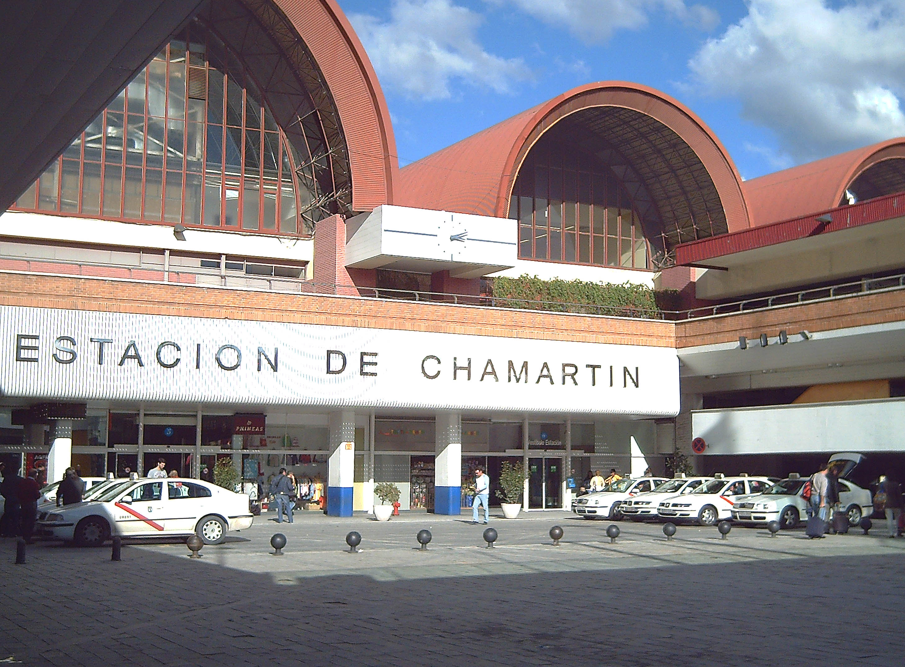 Entrance of the Chamartín railway station in Madrid (Spain).